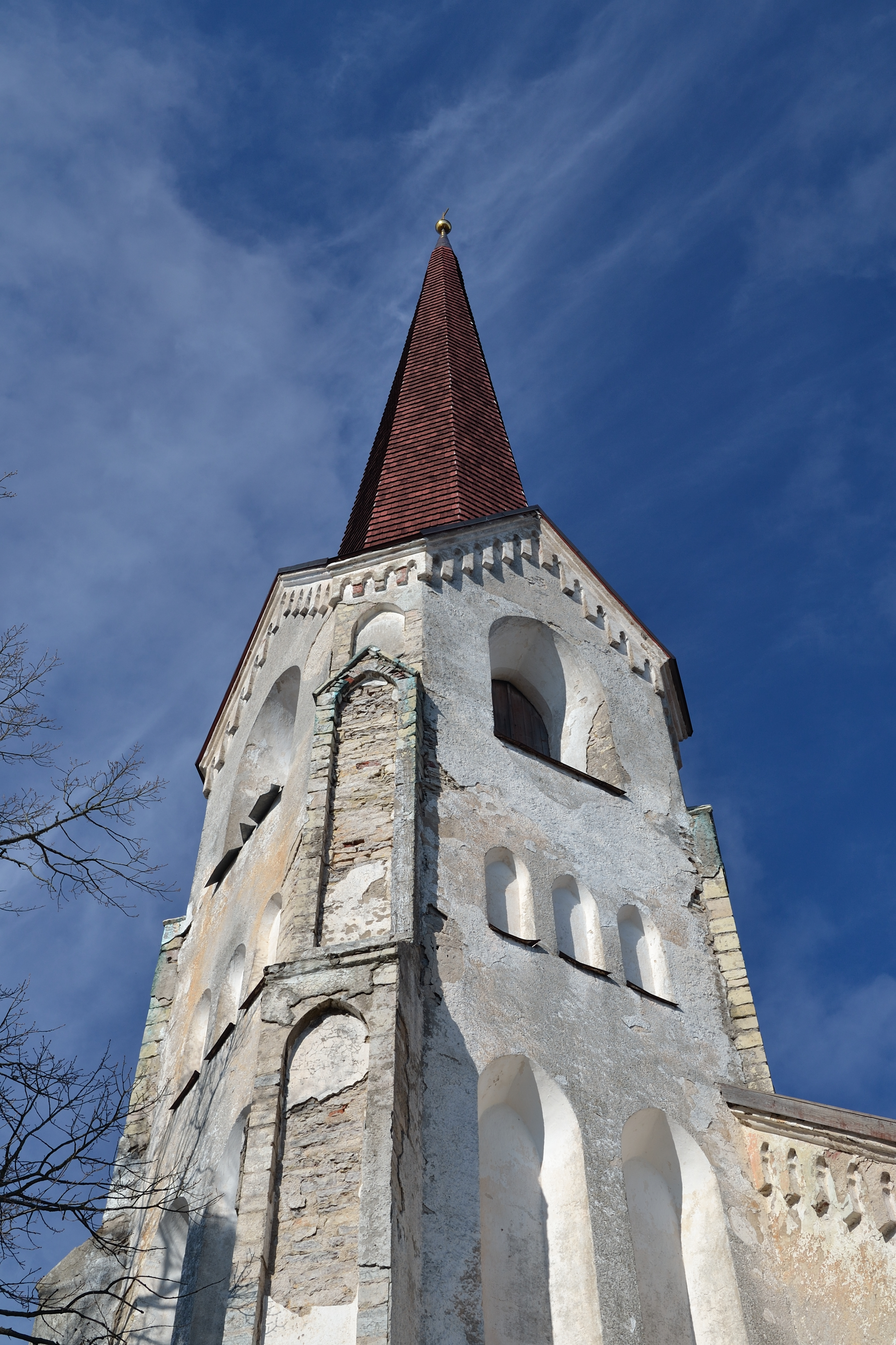 Viru-Jaagupi church tower